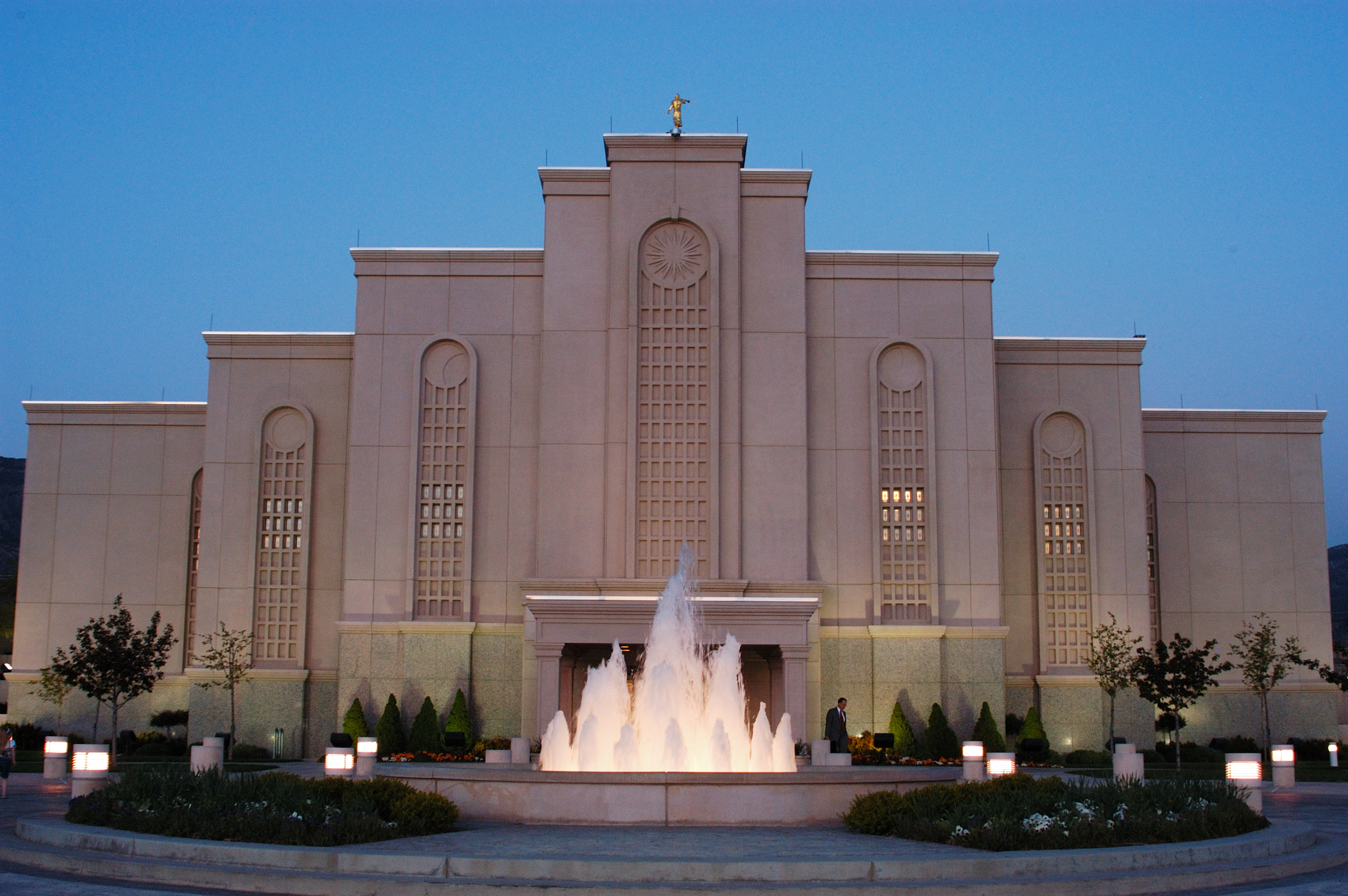 The Albuquerque New Mexico Temple of The Church of Jesus Christ of Latter-day Saints. Additional details about the temple can be found here.